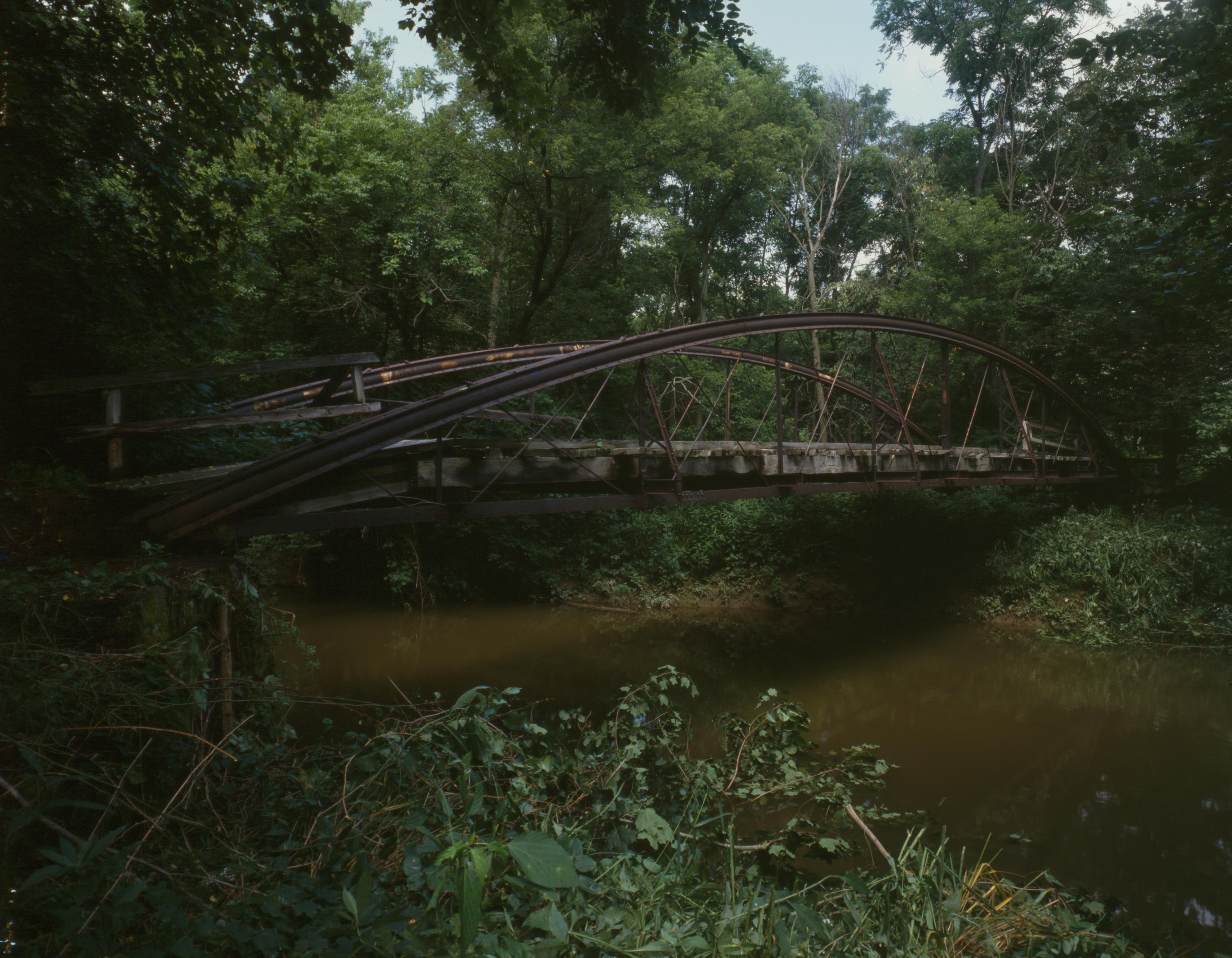 Southern (downstream) side of the Mill Road Bowstring Bridge, which at the time of the pictured carried Mill Road over Wakatomika Creek near Bladensburg in western Jackson Township, Knox County, Ohio, United States. Built in 1876, it is listed on the National Register of Historic Places.